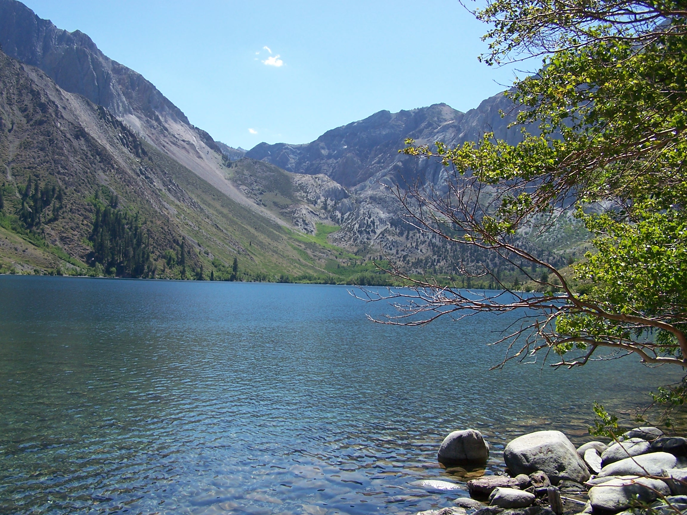 Convict Lake in August